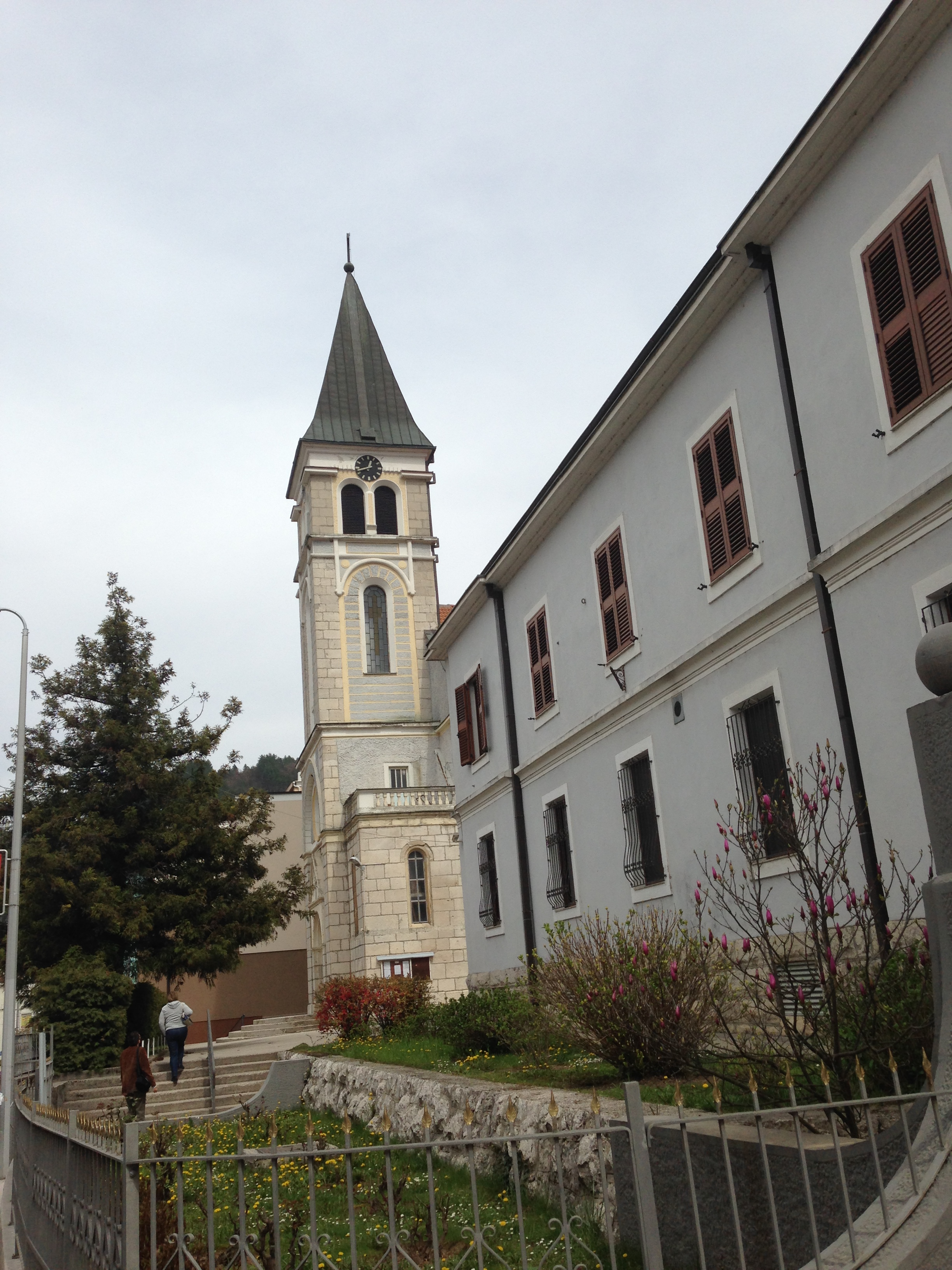 Franciscan monastery and parish church of St. John the Baptist (by Josip Vancaš) in Konjic